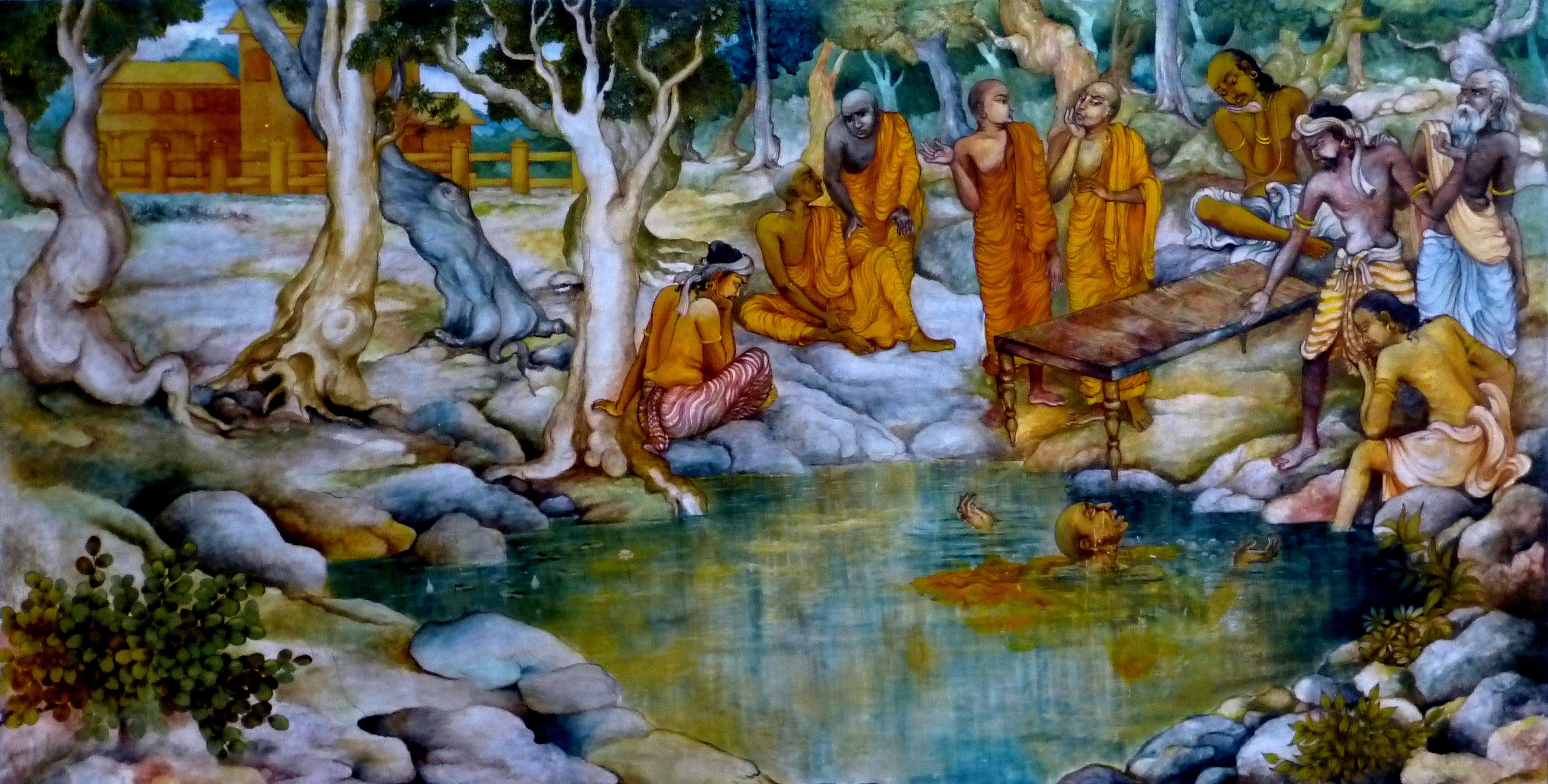 10 Devadatta sinks into the Ground, at the Nava Jetavana, Shravasti Photograph of murals in the Nava Jetavana temple, Jetavana Park, Shravasti, Uttar Pradesh, taken by Anandajoti.